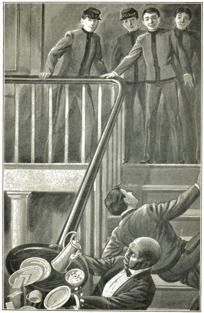 jpg of image on page 111 of